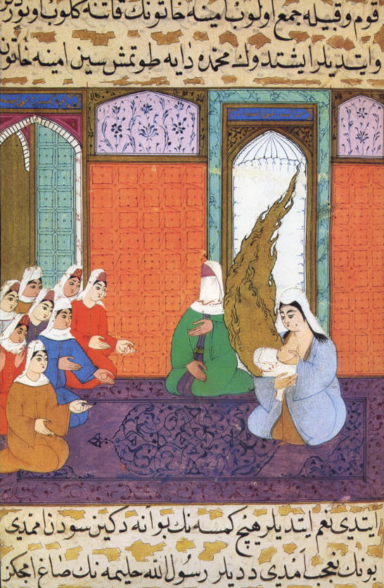 Siyer-I Nebi or Life of the Prophet